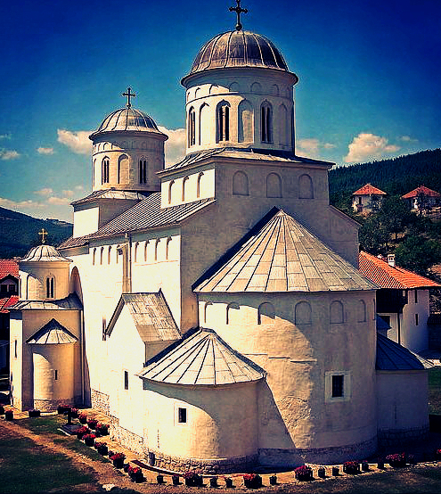 Monastery Mileseva is a monastery from the 13th century. From the year 1219.